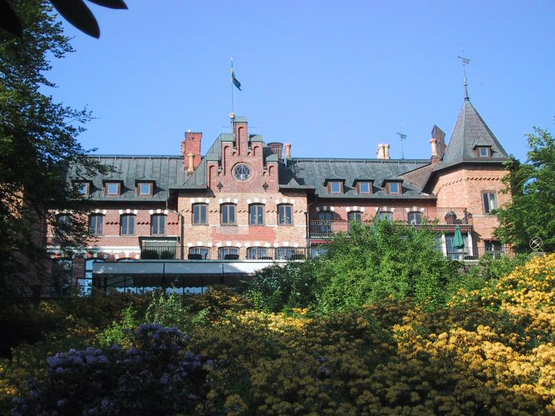 Sofiero Castle.